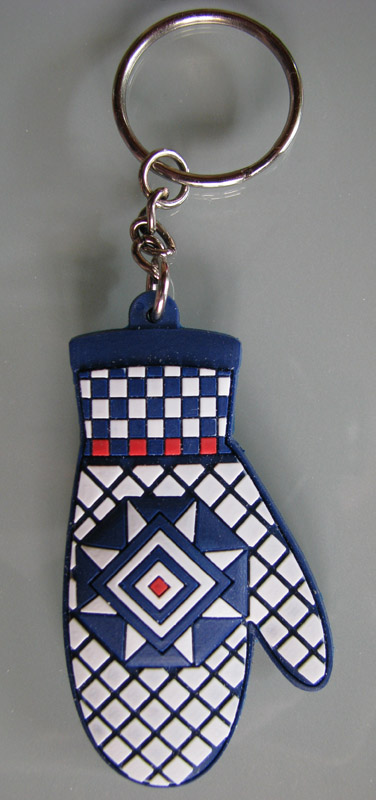 Key fob in the shape of a Grolse Want, a glove with a specific pattern from Groenlo.